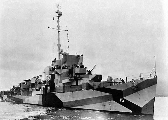 The U.S. Navy destroyer escort USS Austin (DE-15), circa in 1944. She is painted in Camouflage Measure 32, Design 9D.